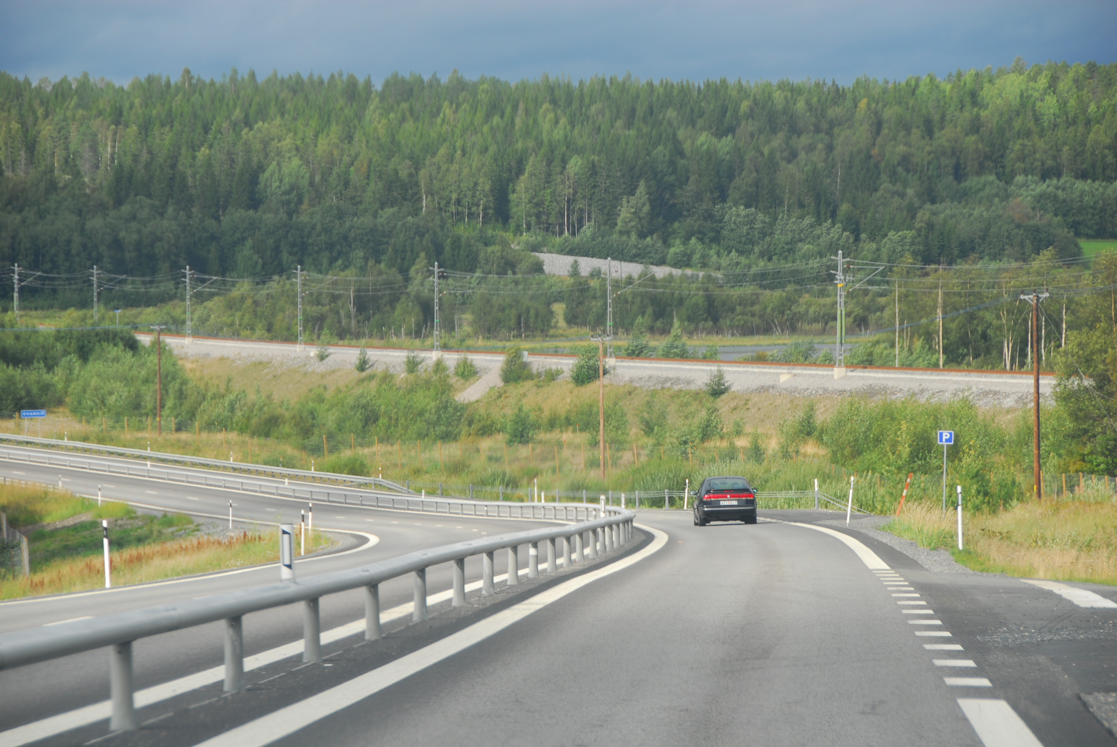 European Route E4 and the Bothnia Line at Hjälta between Umeå and Örnsköldsvik in Sweden.